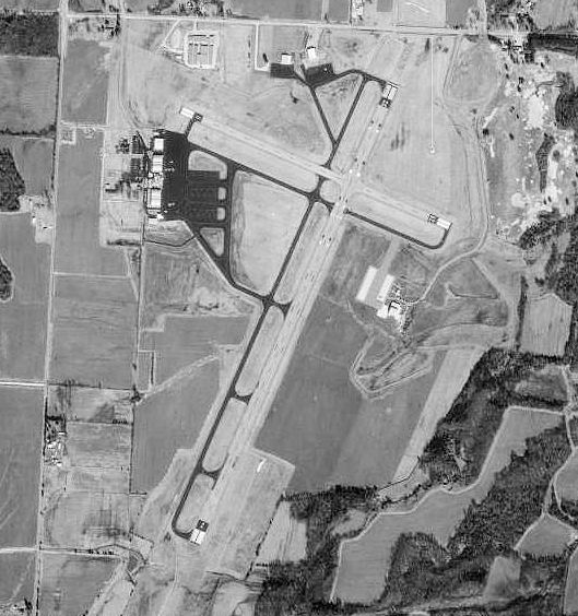 USGS digital orthophoto McKellar-Sipes Regional Airport 10 km W of Jackson, Tennessee, United States 01 February 1997